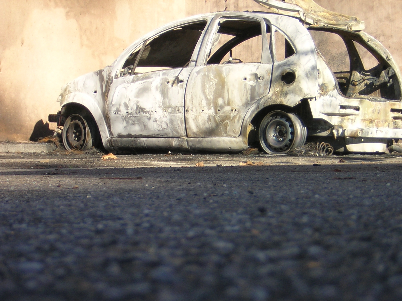 Burnt out car, 6. November 2005. Picture taken during the French suburb riots by Francois Schnell. (Looks like a Citroen C3 - GClark Jan 2006)